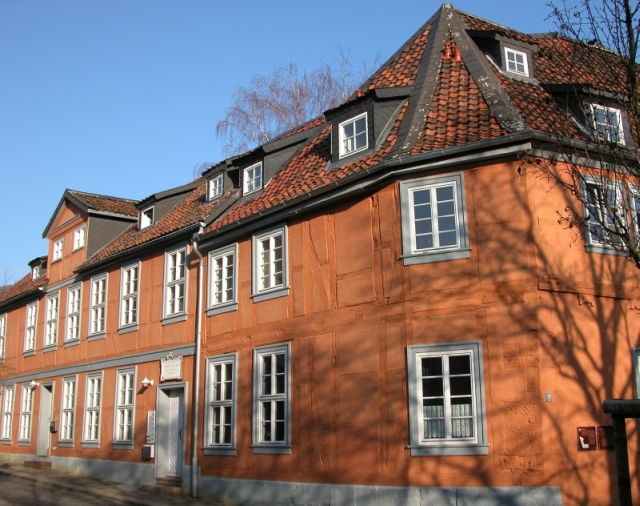 Brunswick, Germany: Birthplace of Louis Spohr (picture taken in January 2006).